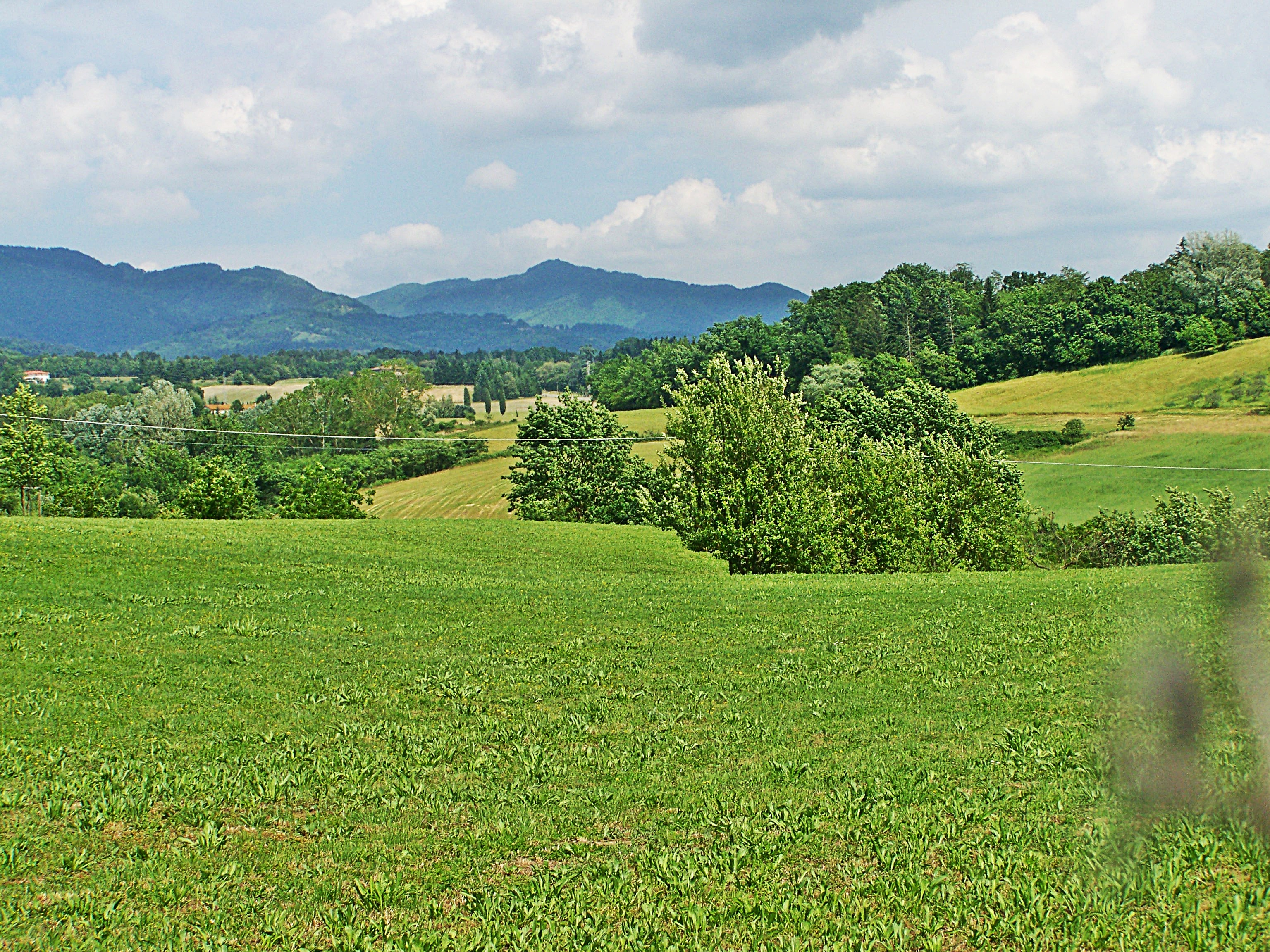 landscape